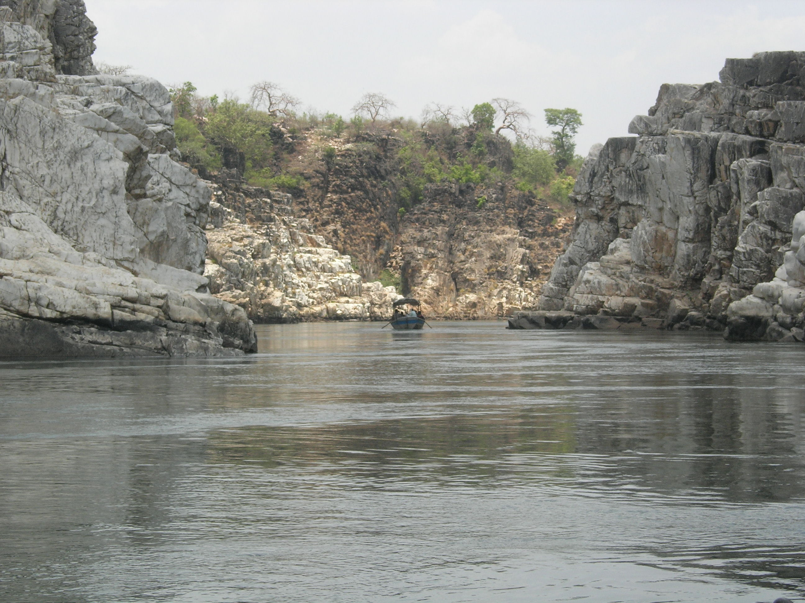 Natural marble rocks carved by narmada river at Jabalpur.